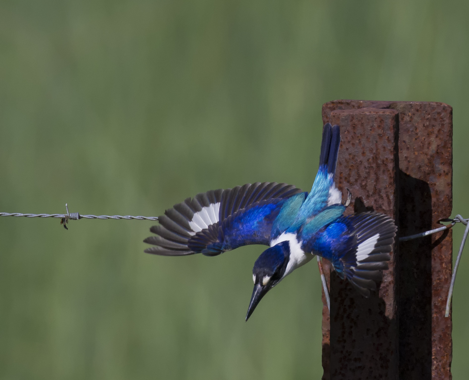 fearless plunge, they go hard